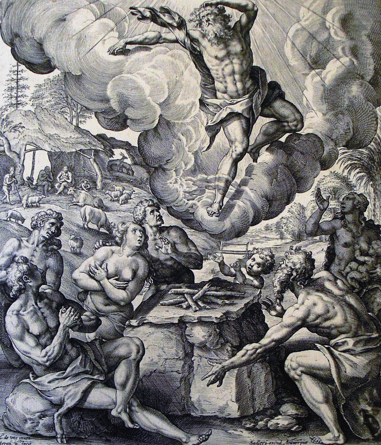 Enoch translated. Genesis cap 5 v 24. De Vos